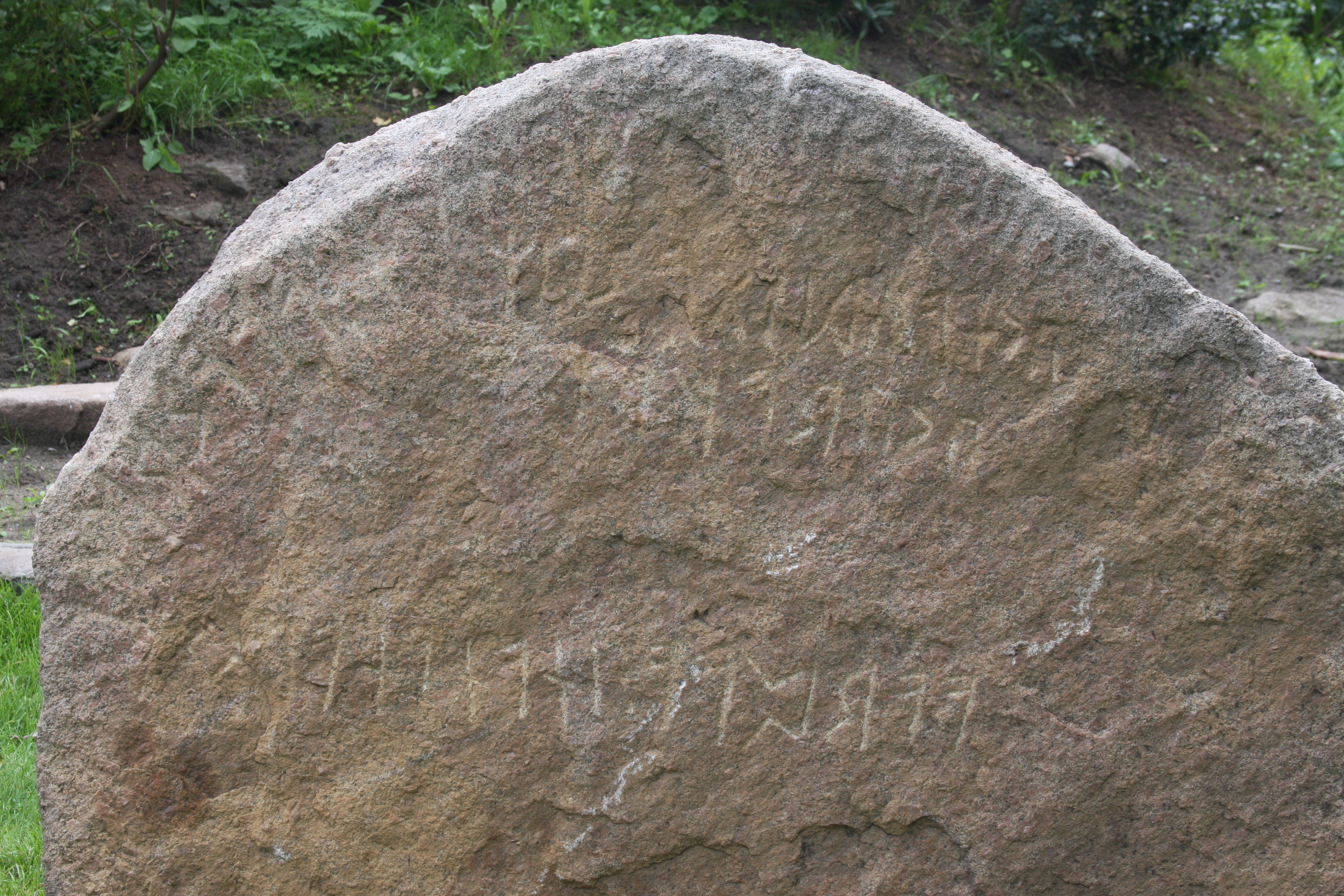 The Hogganvik stone, Mandal (Norway). Around 1.700 years old. Old Runic.